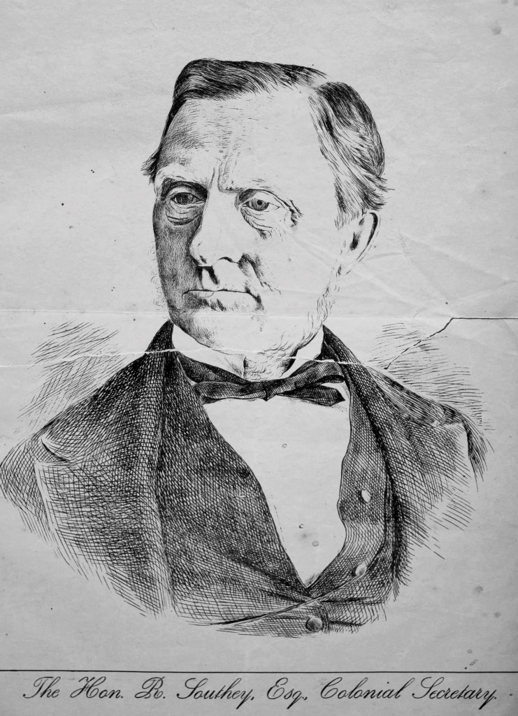 Sir Richard Southey. British Imperial Administrator of southern Africa.